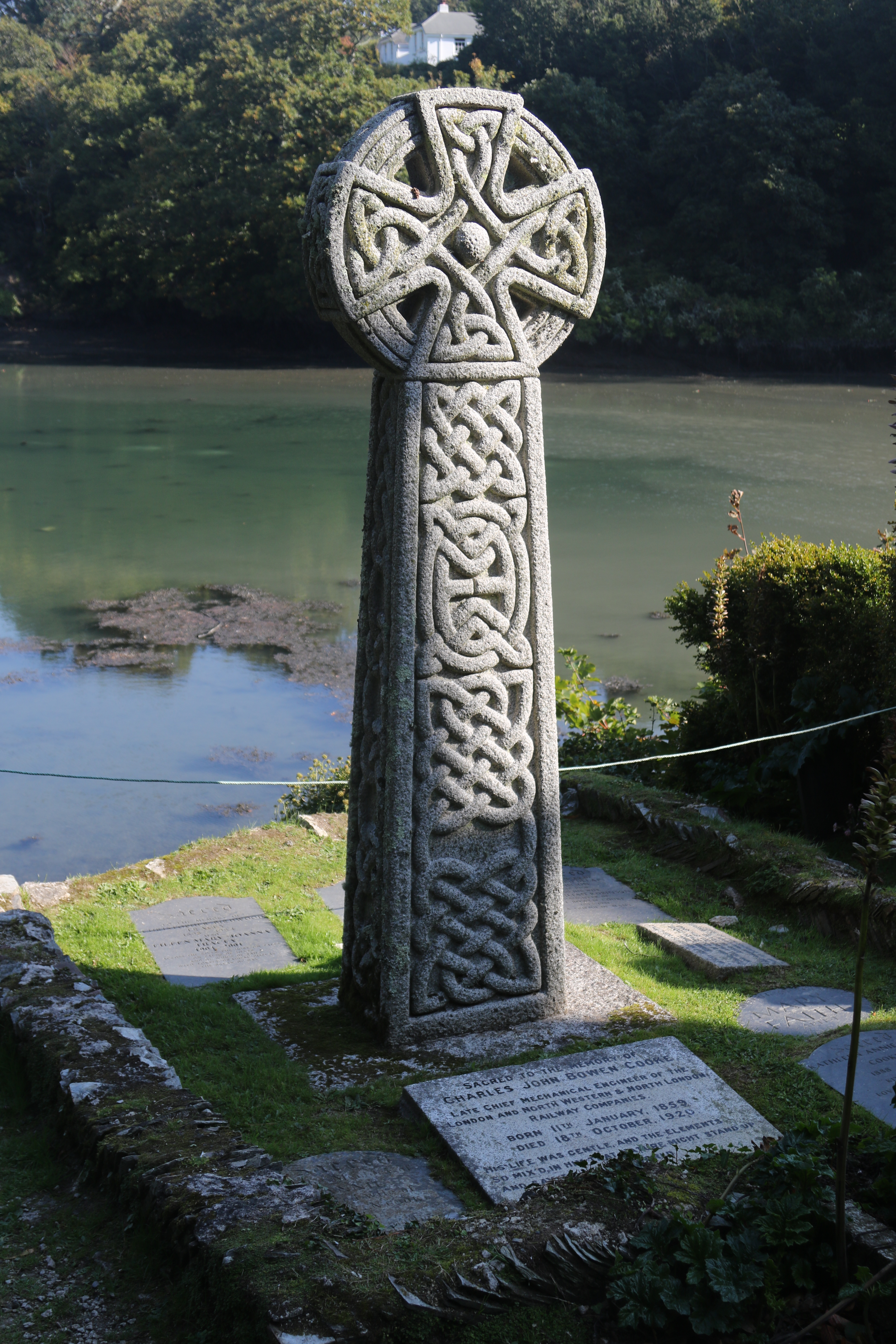 Charles John Bowen Cooke, Chief Mechanical Engineer of the London and North Western and North London Railway Companies 11 January 1859 - 18 October 1920.